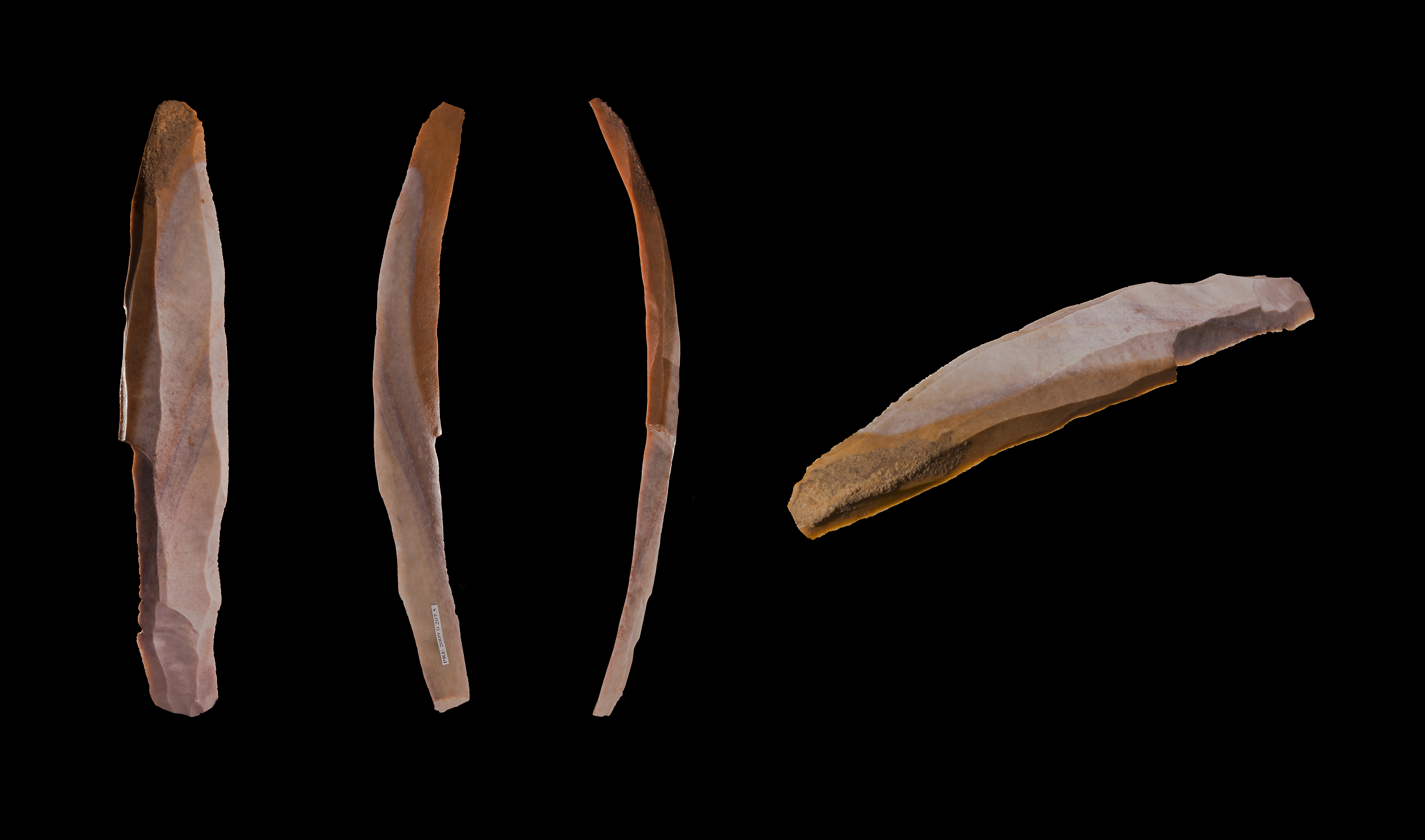 Blade - Different views of the same specimen - excavation by Robert Simonet